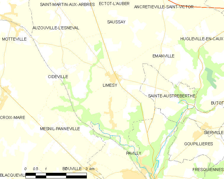 Map of French municipality Limésy